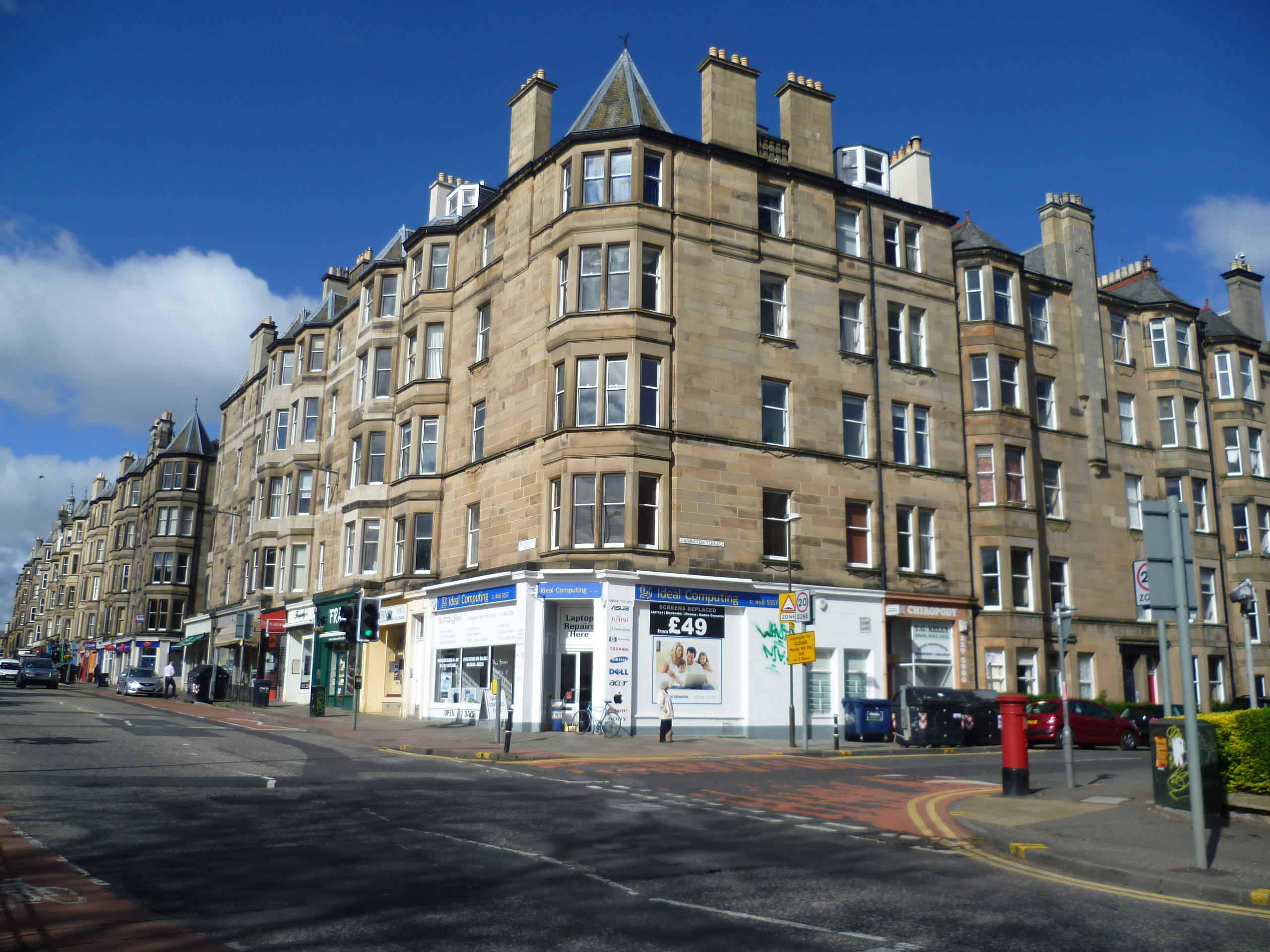 The corner of Bruntsfield Place and Leamington Terrace.